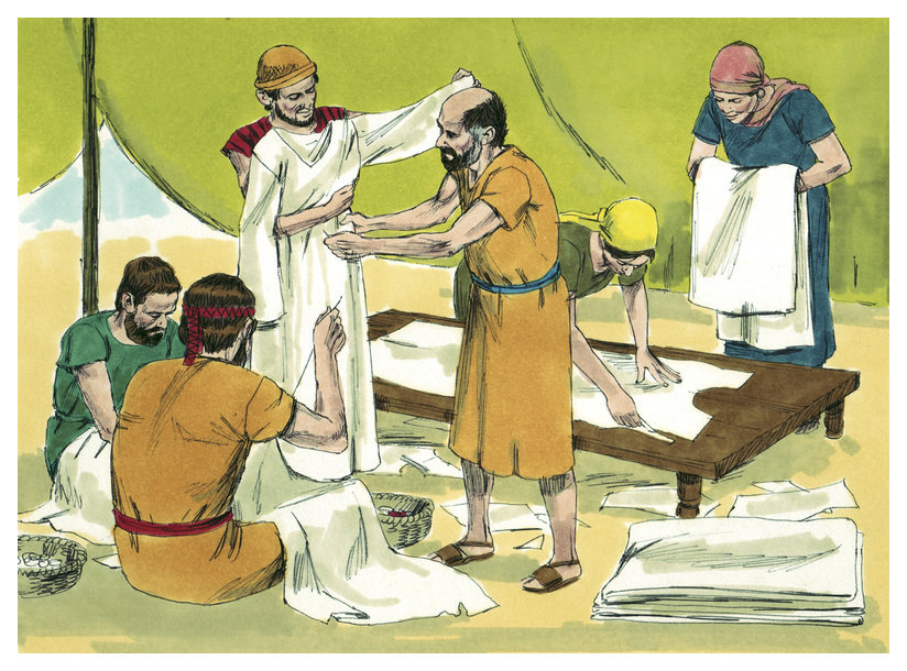 Biblical illustration of Book of Exodus Chapter 29